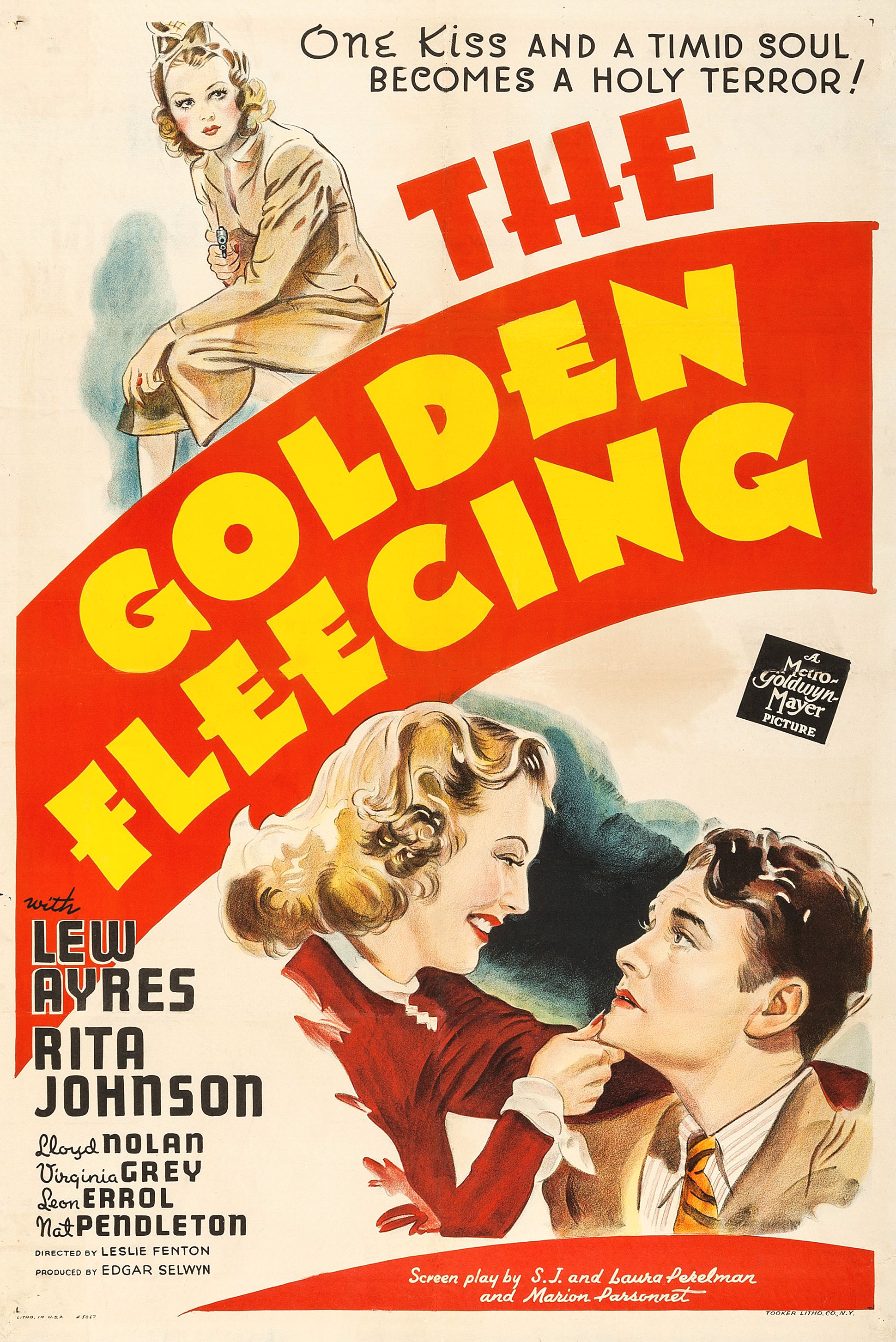 Poster for the 1940 film The Golden Fleecing. The item has no copyright markings on it as can be seen in the links above. At bottom is Litho in USA 5067, and Tooker Lith Co., NY--they printed the poster.